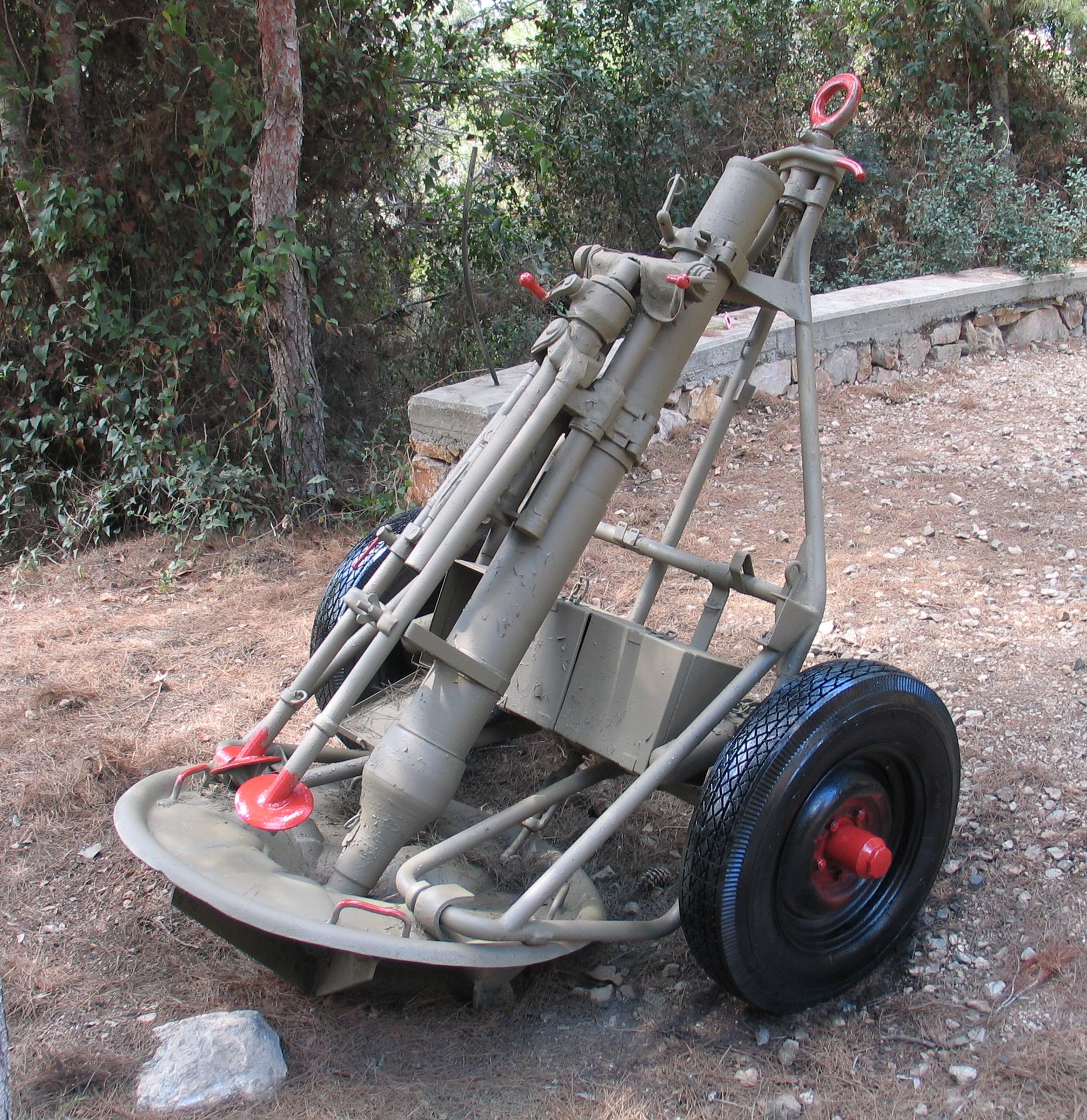 120 mm mortar in Beyt ha-Totchan, Zichron Yaakov, Israel.